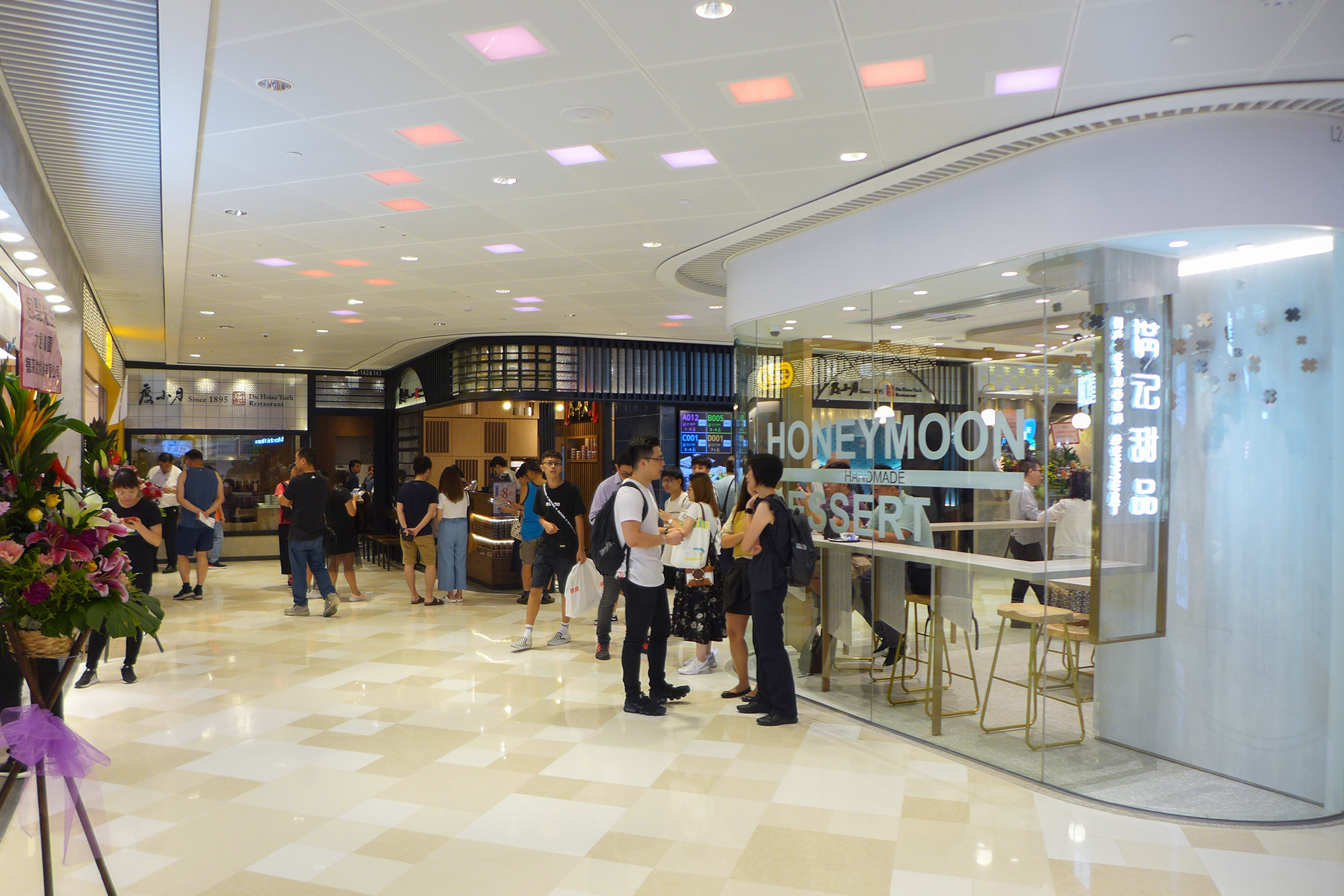 V Walk Level 2 Food Walk